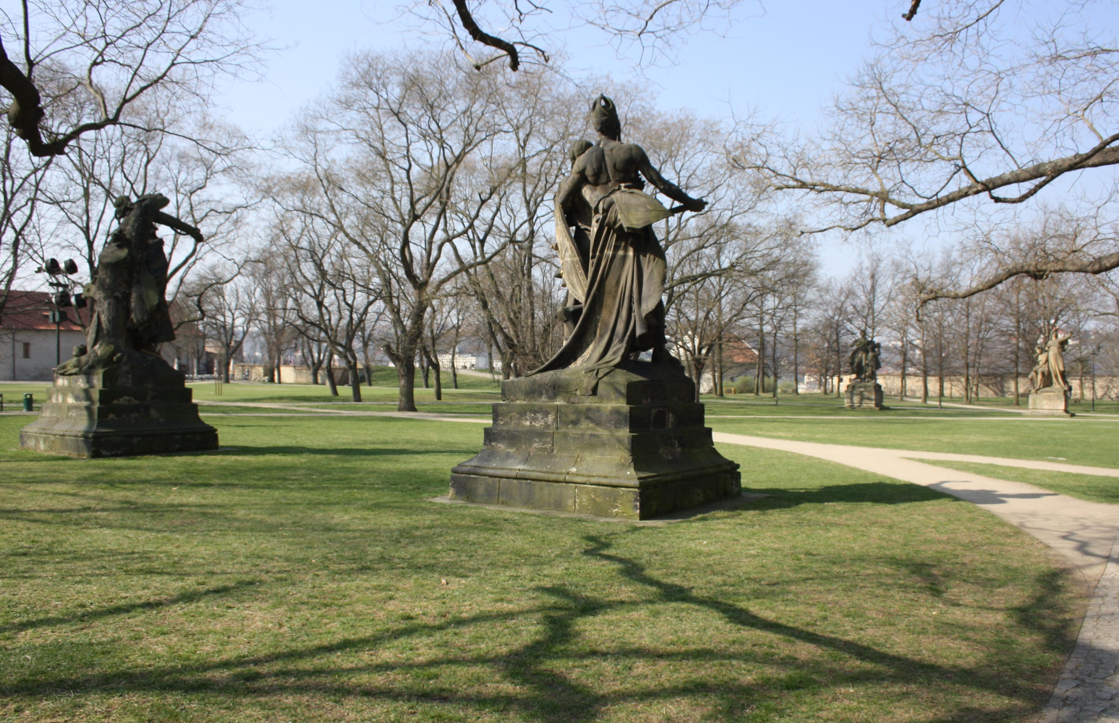 Statues in park. Vyšehrad, Prague, Czech Republic This photograph was taken with a DSLR from WMCZ's Camera grant.